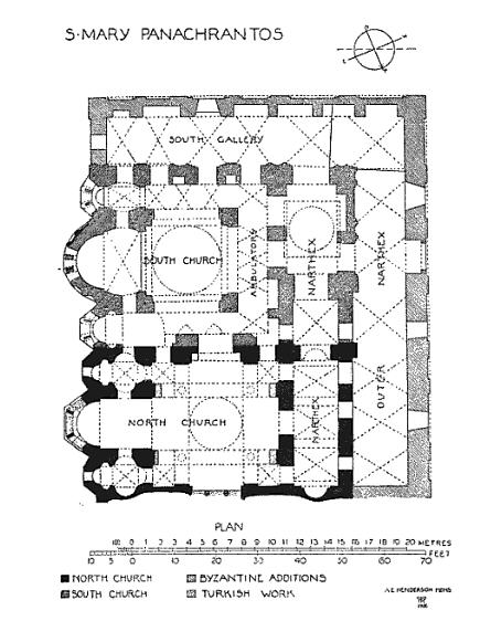 The Plan of the Fenari Isa mosque in Istanbul